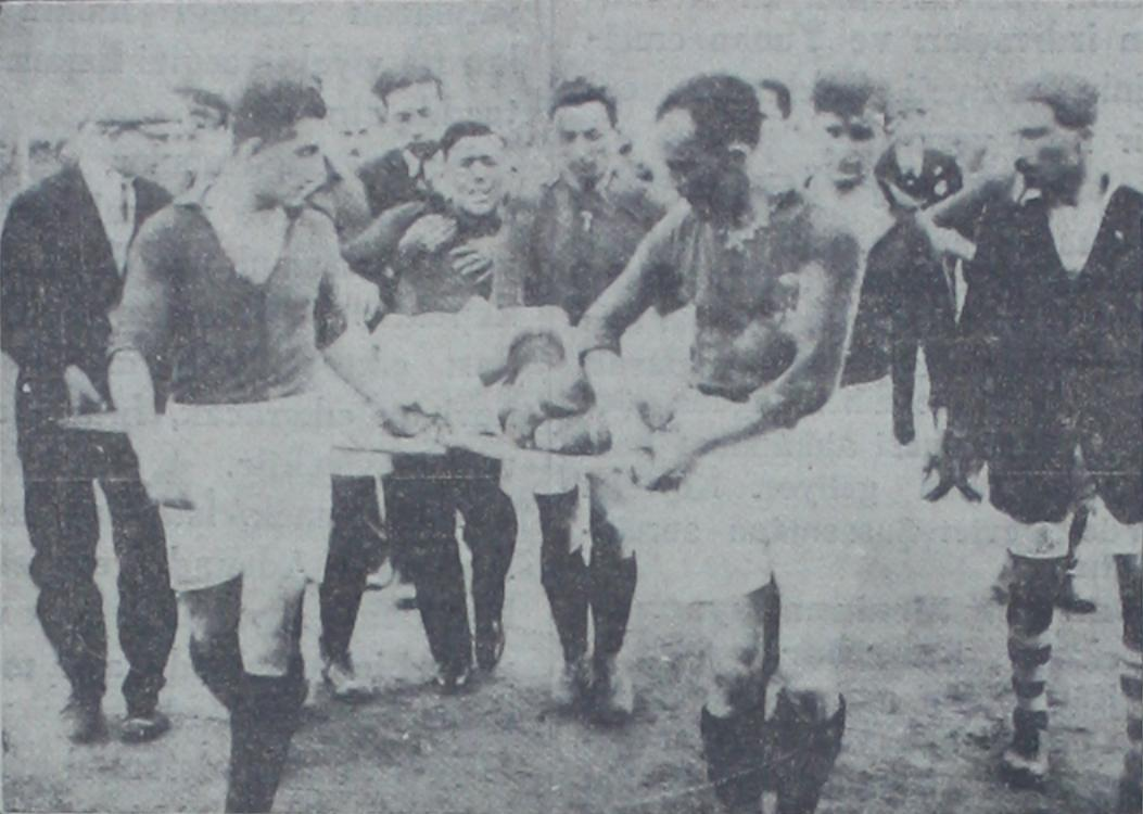 Mehmet Nazif's (Gerçin) injury in Fenerbahçe-Galatasaray match in 10 May 1929.